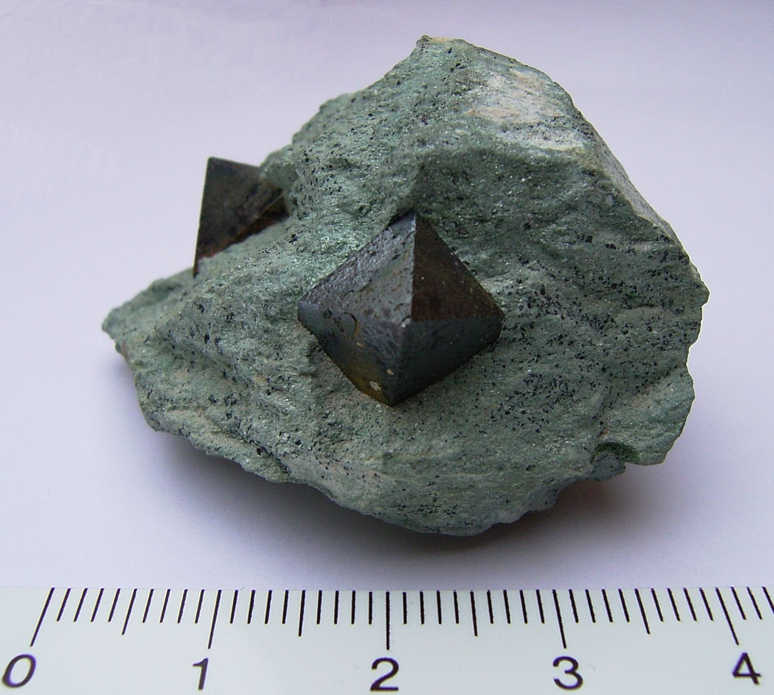 Magnetite (South Tyrol, Italy)